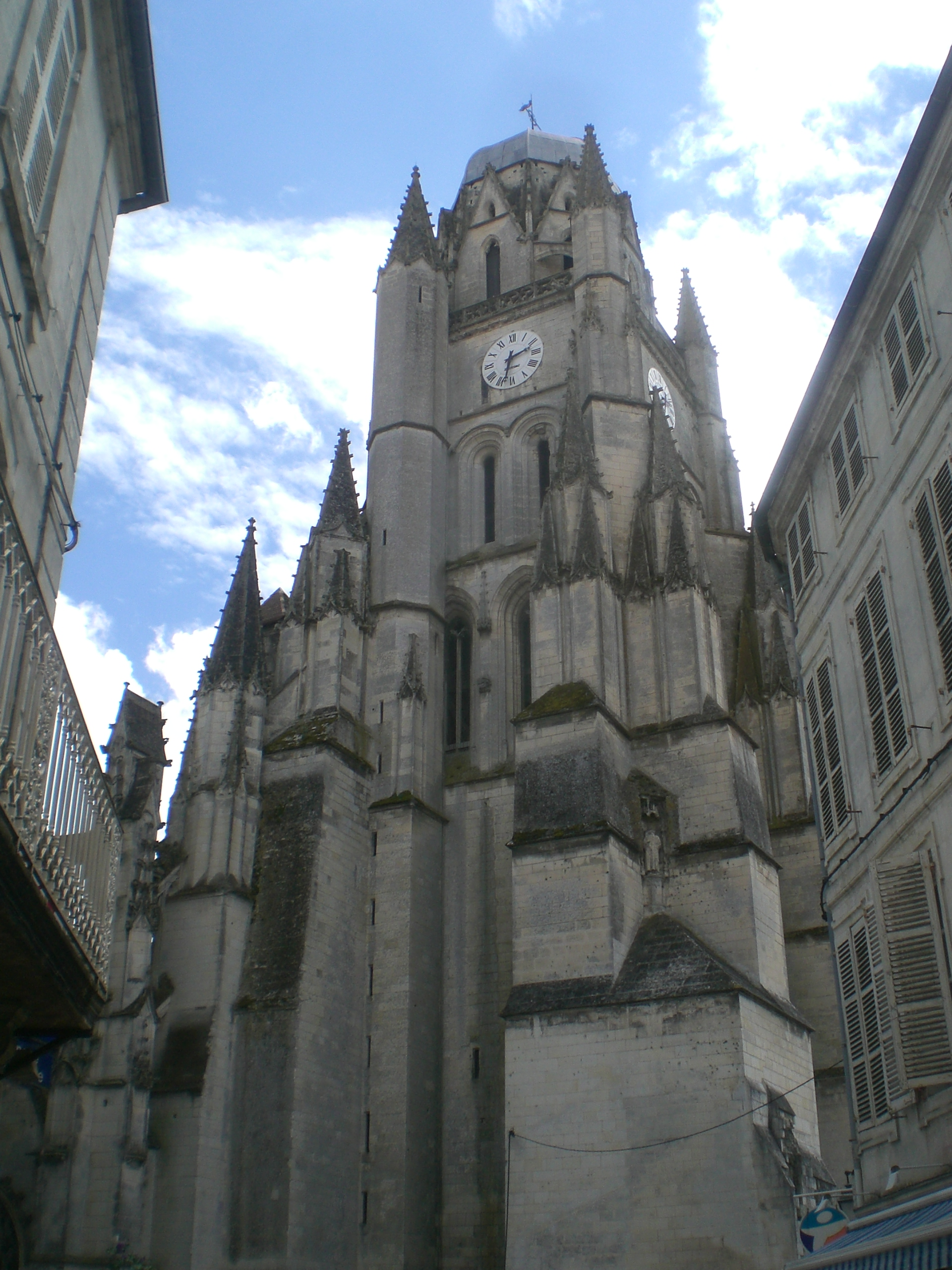 the cathedral Saint-Pierre in Saintes